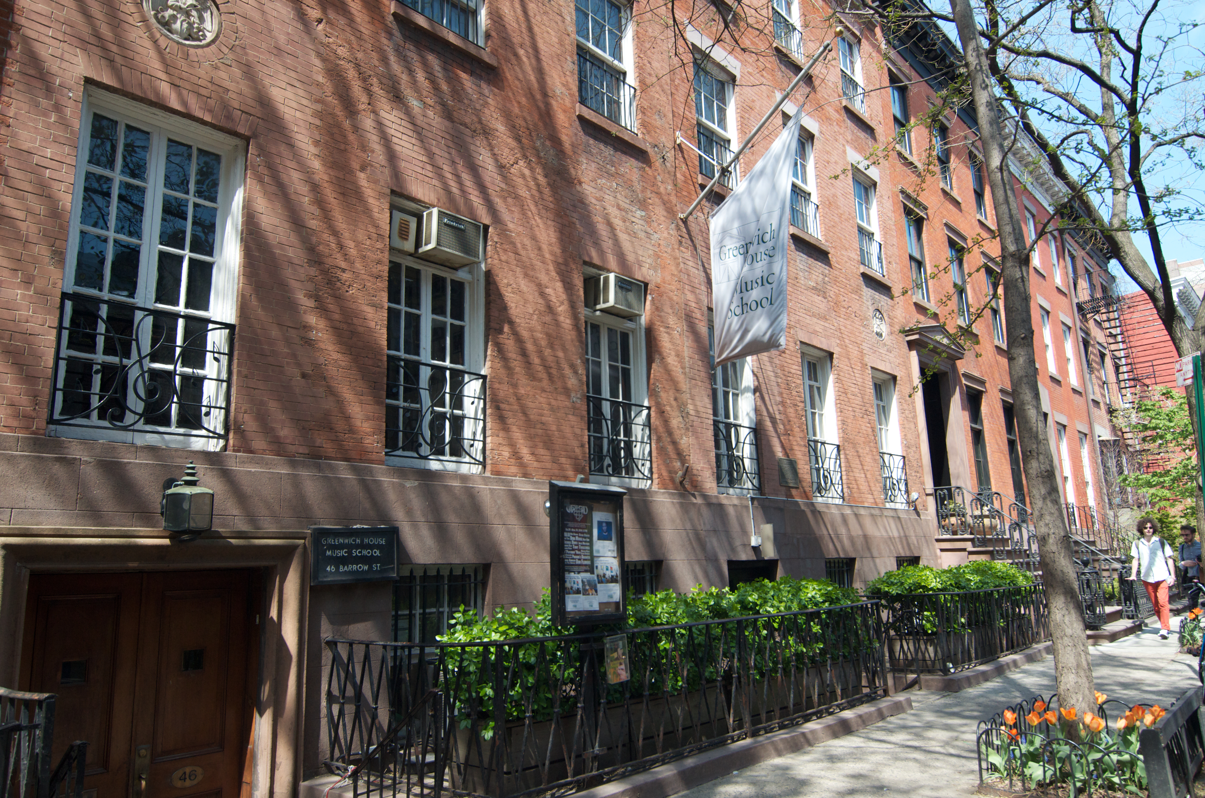 Greenwich House Music School, located at 46 Barrow St, NYC.